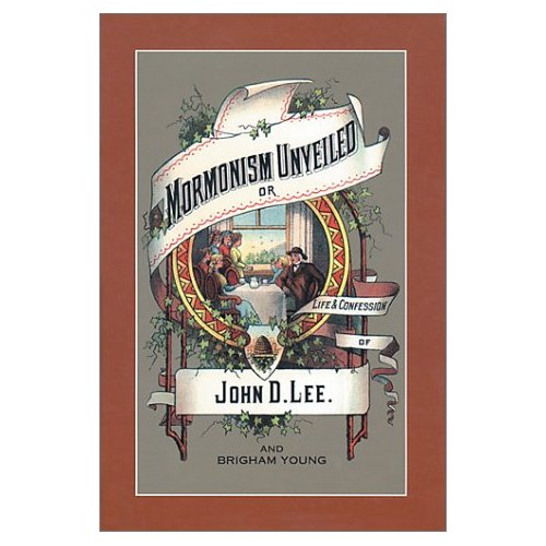 Frontispiece for book Mormonism Unveiled